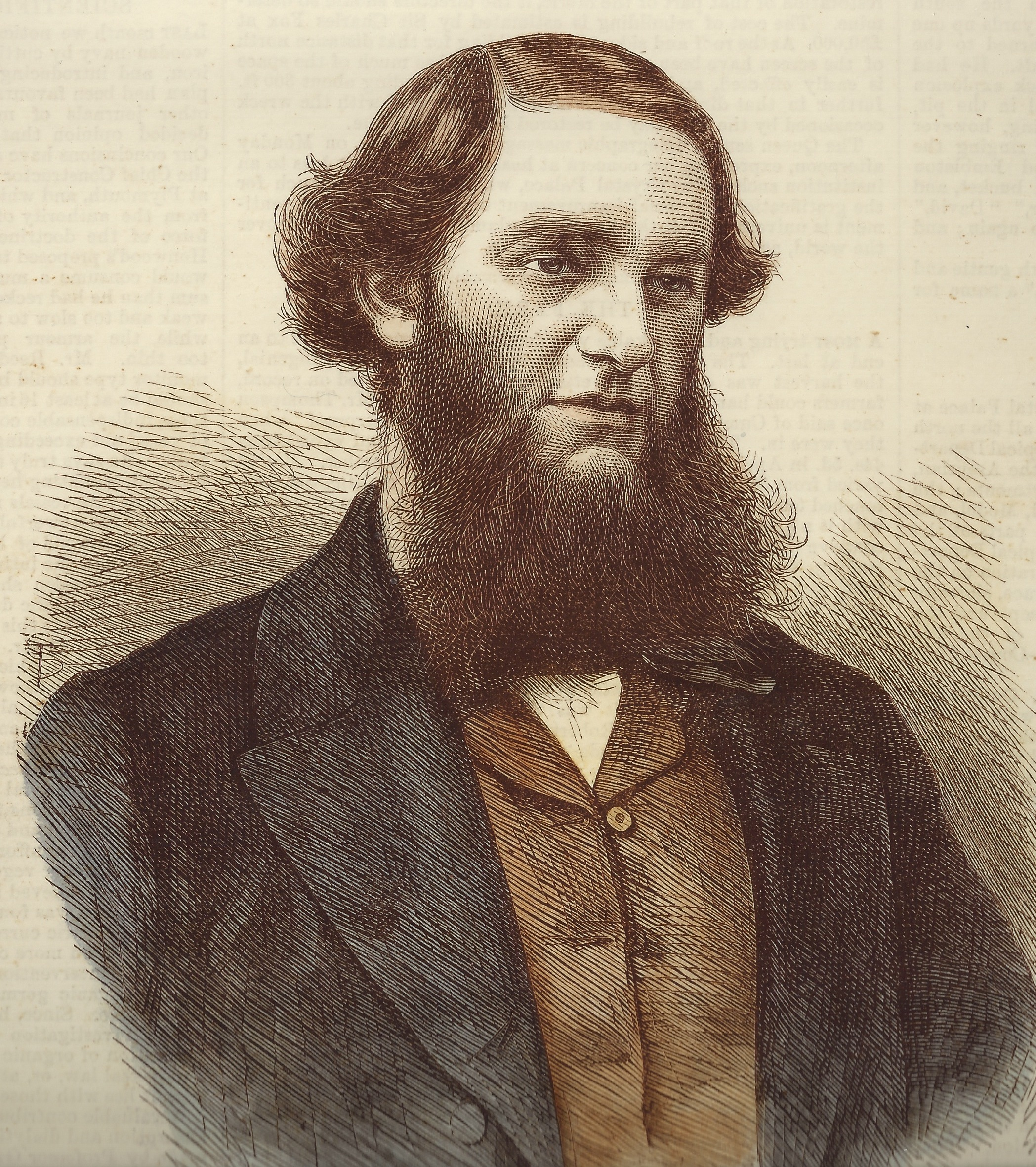 1866 Parkin Jeffcock, Esq. C.E. portrait engraving from The Illustrated London News